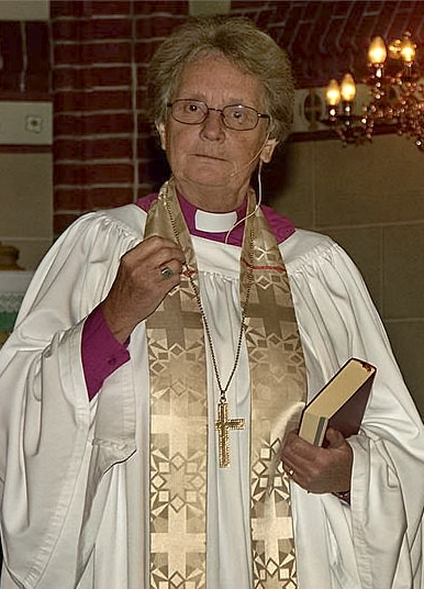 Bishop Christina Odenberg, diocese of Lund of theChurch of Sweden. Picture taken in the Church of Eslöv (Eslövs kyrka).